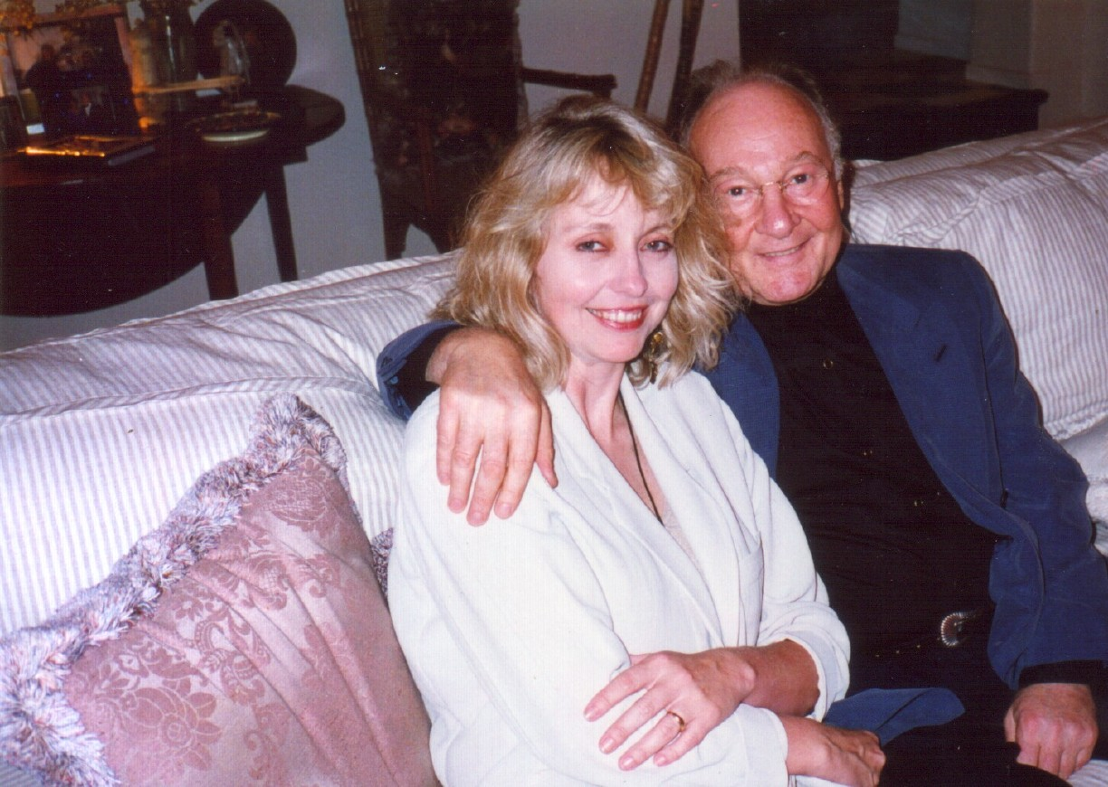 Picture taken at the residence of Joy Monroe McConnell on Sunset Plaza Drive in the Hollywood Hills, 1994.